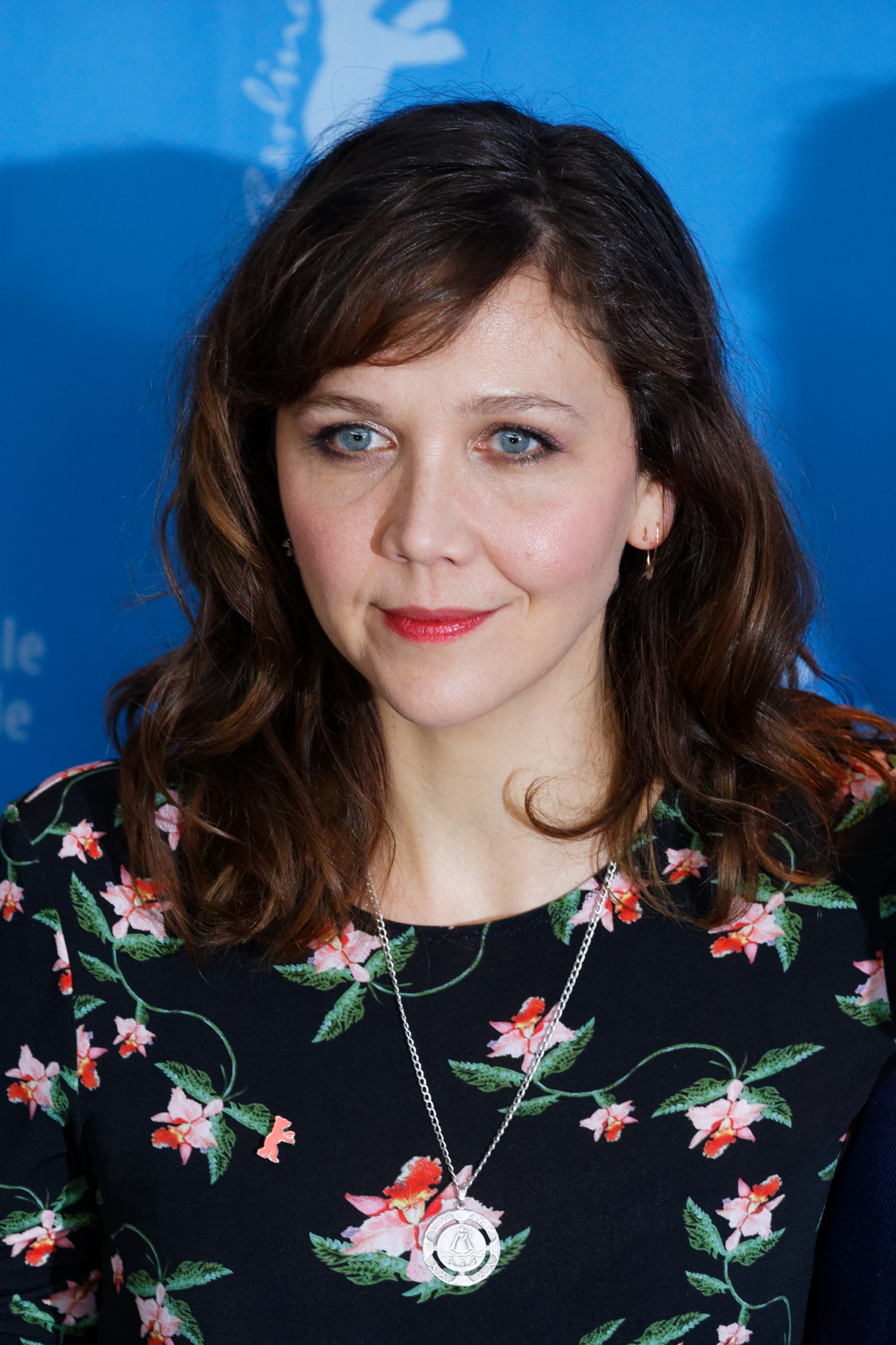 Maggie Gyllenhaal at Berlinale 2017